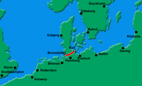 Kiel Canal route map